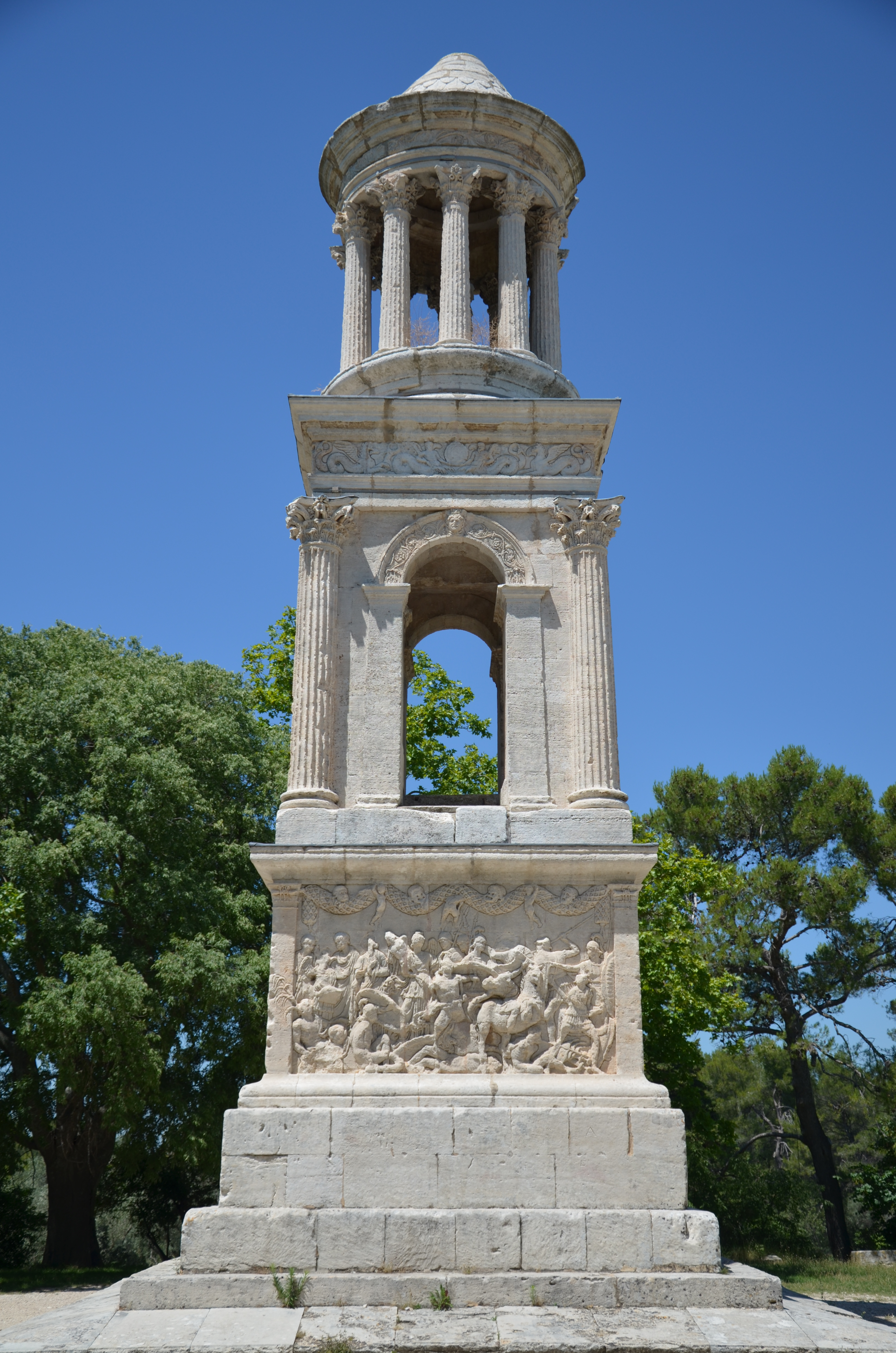 The Mausoleum of the Julii, located across the Via Domitia, to the north of, and just outside the city entrance, dates to about 40 BCE, and is one of the best preserved mausoleums of the Roman era. A dedication is carved on the architrave of the building facing the old Roman road, which reads: SEX · M · L · IVLIEI · C · F · PARENTIBVS · SVEIS Sextius, Marcus and Lucius Julius, sons of Gaius, to their forebears It is believed that the mausoleum was the tomb of the mother and father of the three Julii brothers, and that the father, for military or civil service, received Roman citizenship and the privilege of bearing the name of the Julii, one of the most distinguished families in Rome.